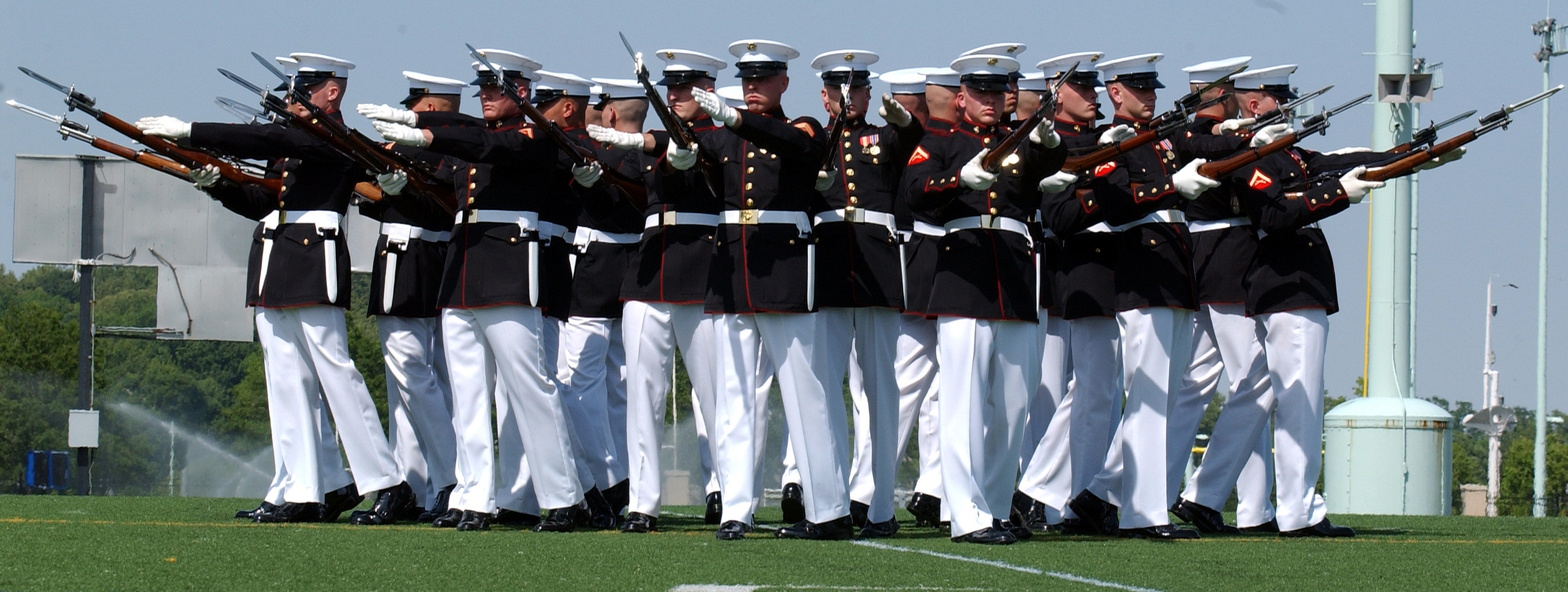 05/21/07 - The U.S. Marine Corps Silent Drill Platoon performs at the U.S. Naval Academy in Annapolis, Md., May 21, 2007. The platoon is based at Marine Barracks Washington, D.C., and a 24-man rifle platoon that performs precision drill exhibition for hundreds of thousands of spectators annually. Their performance at the Naval Academy was part of events celebrating the graduation and commissioning of the Naval Academy Class of 2007. (U.S. Navy photo by Mass Communication Specialist Seaman Michael Croft) (Released) 070521-N-0593C-002 Click to download the publication quality image in a new window. This file is 843 KB, please be patient while it downloads.